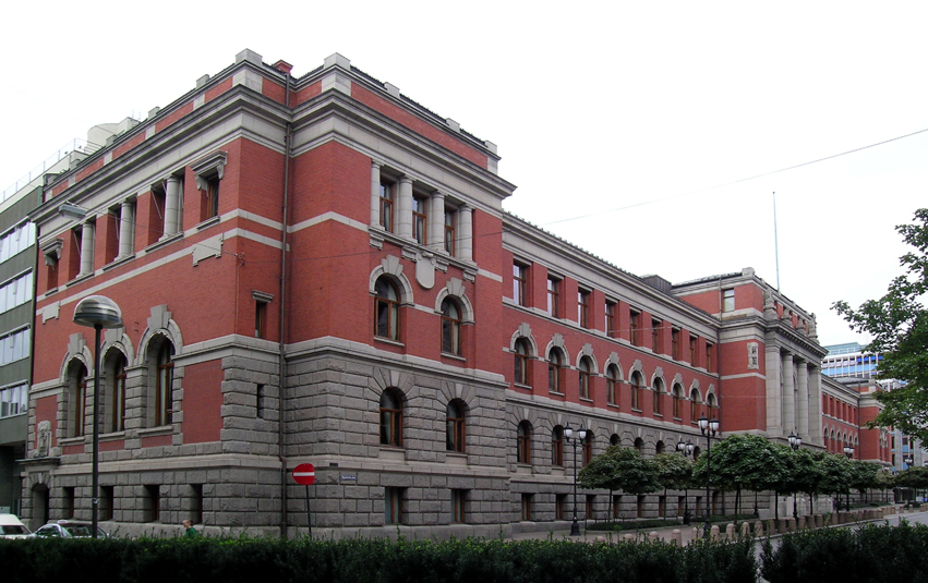 Norway's Supreme Court, Oslo, Norway. Building erected 1896-1903. Architect: Hans Sparre.